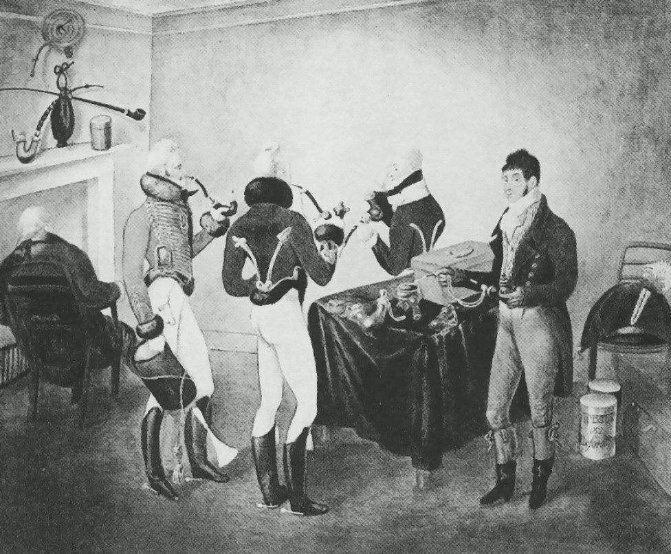 A Scene at Ipswich Barracks. Greyscale reproduction of a colour print from an original painting.